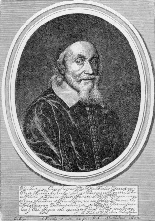 Axel Oxenstierna, Lord High Chancellor of Sweden